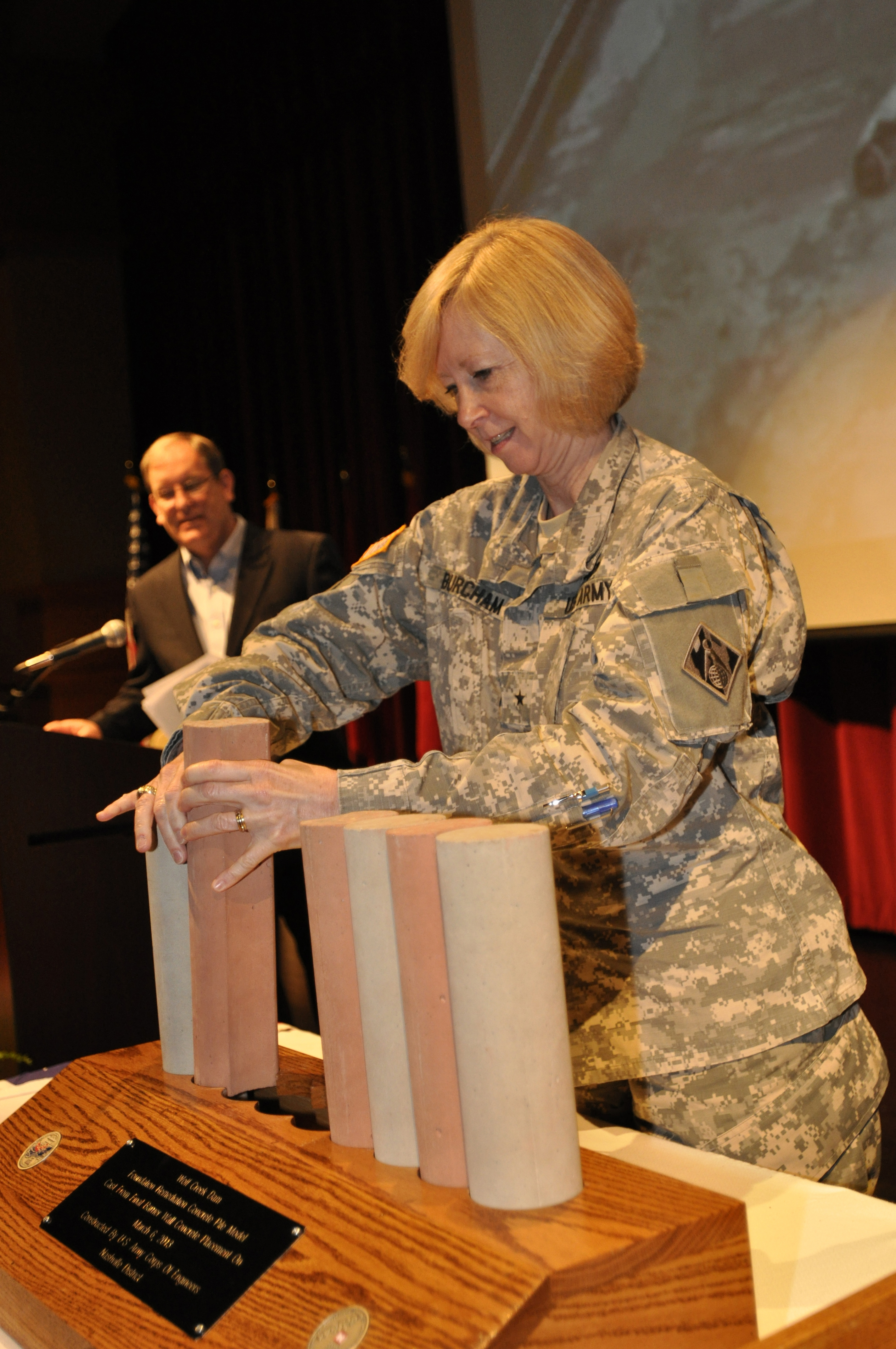 U.S. Army Brig. Gen. Margaret Burcham, the commanding general of the Great Lakes and Ohio River Division of the U.S. Army Corps of Engineers, places a scale model of a concrete pile into a ceremonial stand marking the completion of the Wolf Creek Dam remediation project in Russell Springs, Ky., April 19, 2013. The multipurpose dam on the Cumberland River in Russell County, Ky., was at high risk for failure before its foundations were reinforced with the load carrying and load transferring beams. (U.S. Army photo by Mark Rankin/Released)